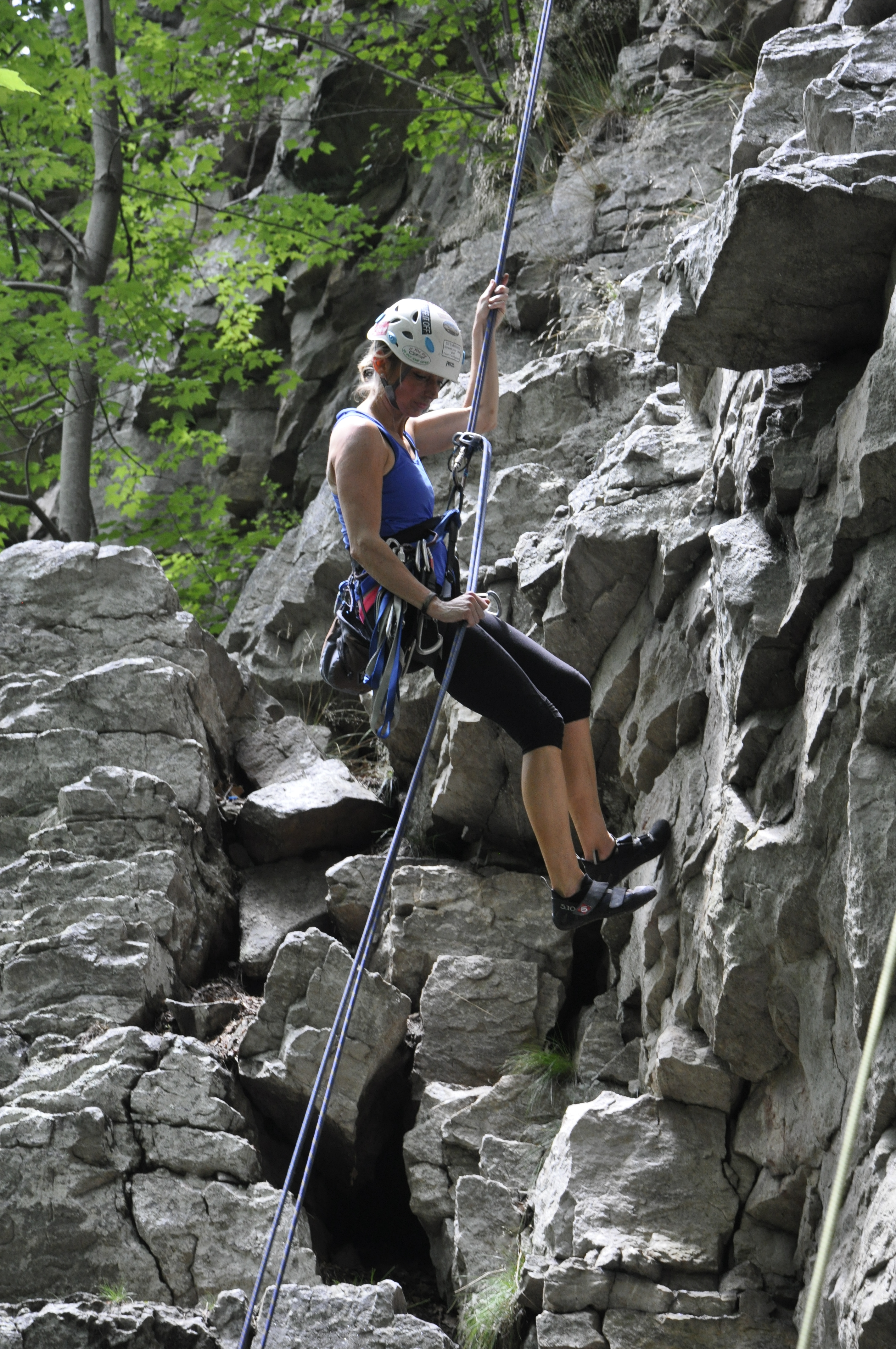 Elizabeth Furnace - Repeling.JPG